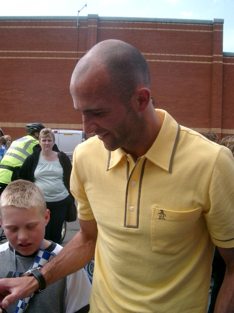 Jim Thomson outside Palmerston Park